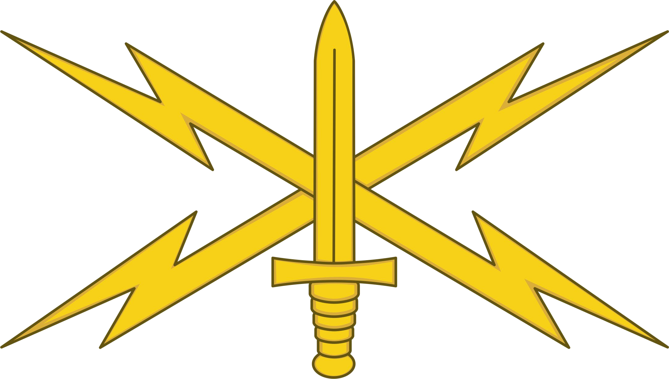 Drawing of the U.S. Army's Cyber Branch Insignia